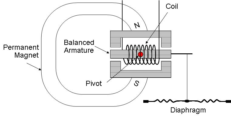 Diagram of a balanced armature transducer in balanced state